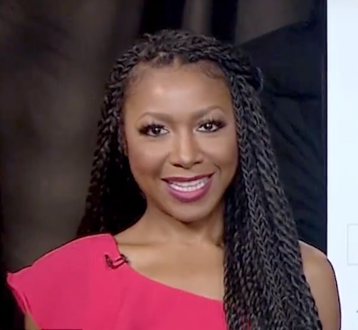 American actress Gabrielle Dennis interviewed by Valder Beebe about the BET Network The Bobby Brown Story television mini-series. Valder catches Up with the stars of the mini-series. Woody McClain reprises his role as Bobby Brown and paints a picture of the young R&B legend’s struggles with stardom as a solo artist. Gabrielle Dennis delivers a stunning performance as the late R&B pop icon, Whitney Houston.